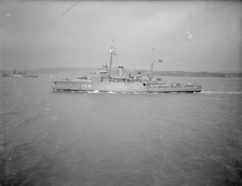 Photograph of British Halcyon class minesweeper HMS Hebe, viewed from HMS Rodney.